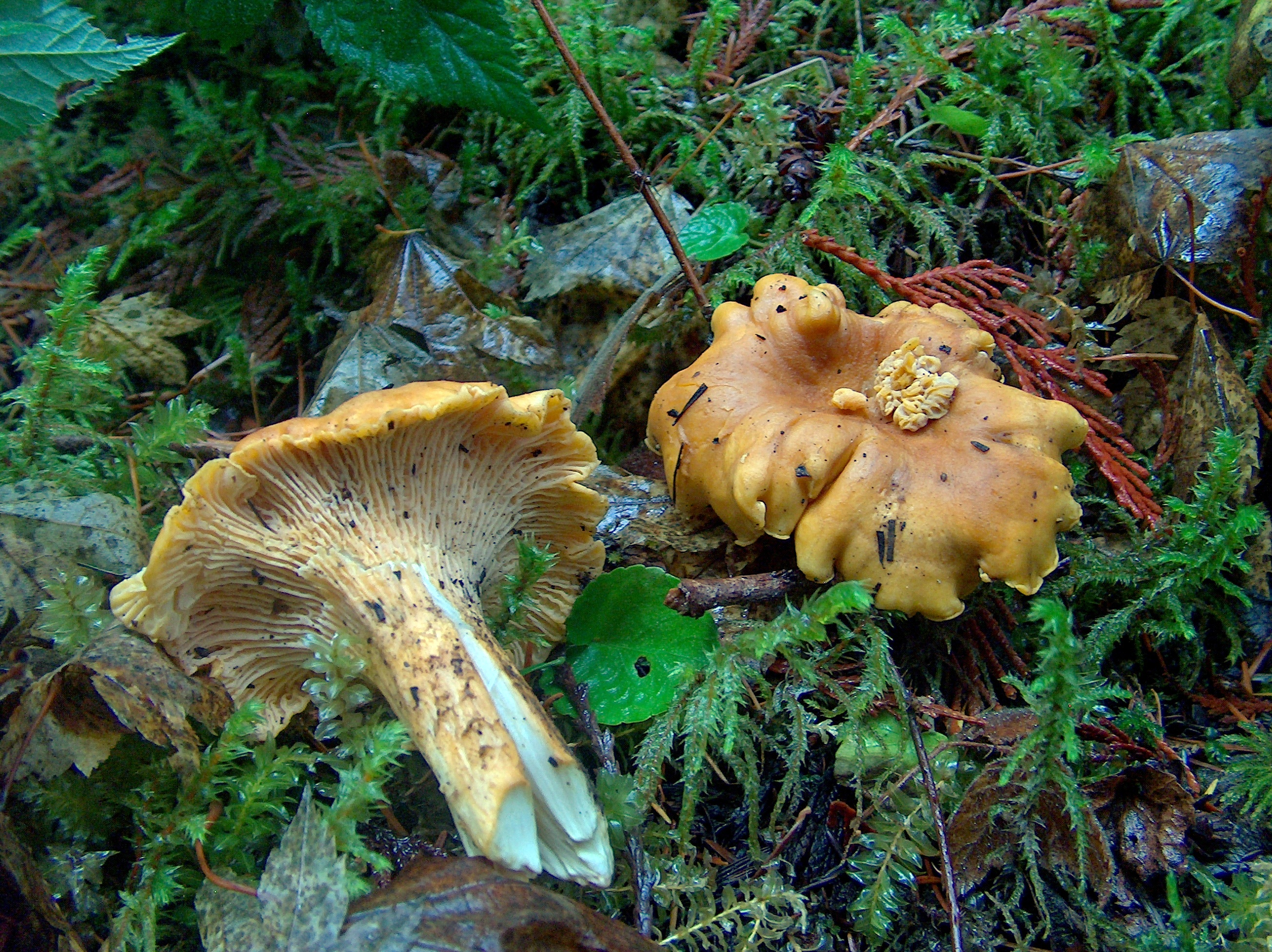 Cantharellus formosus Corner Location: Gilchrist, Oregon, USA For more information about this, see the observation page at Mushroom Observer.